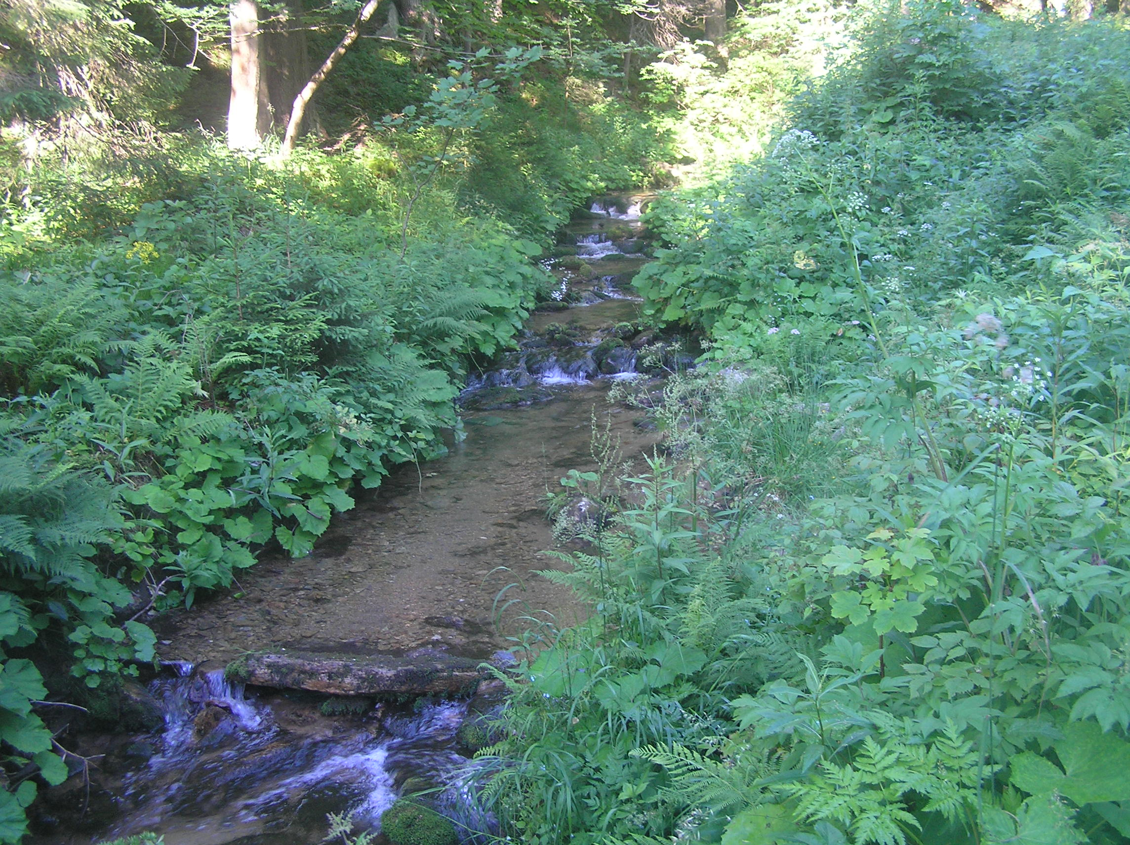 Stříbrnický potok is the creek in the Králický Sněžník Mountains, Czech Republic